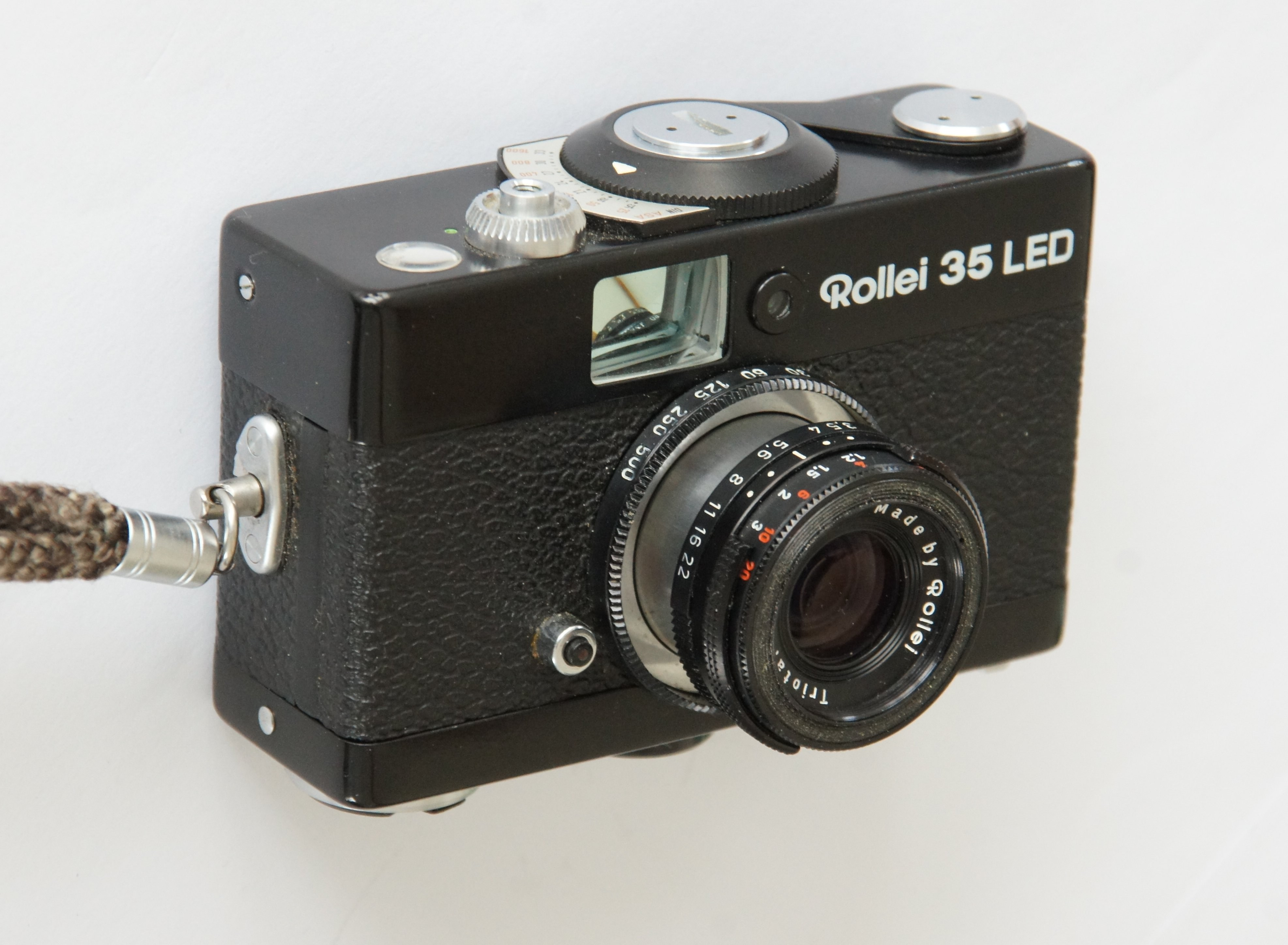 Rollei 35 LED